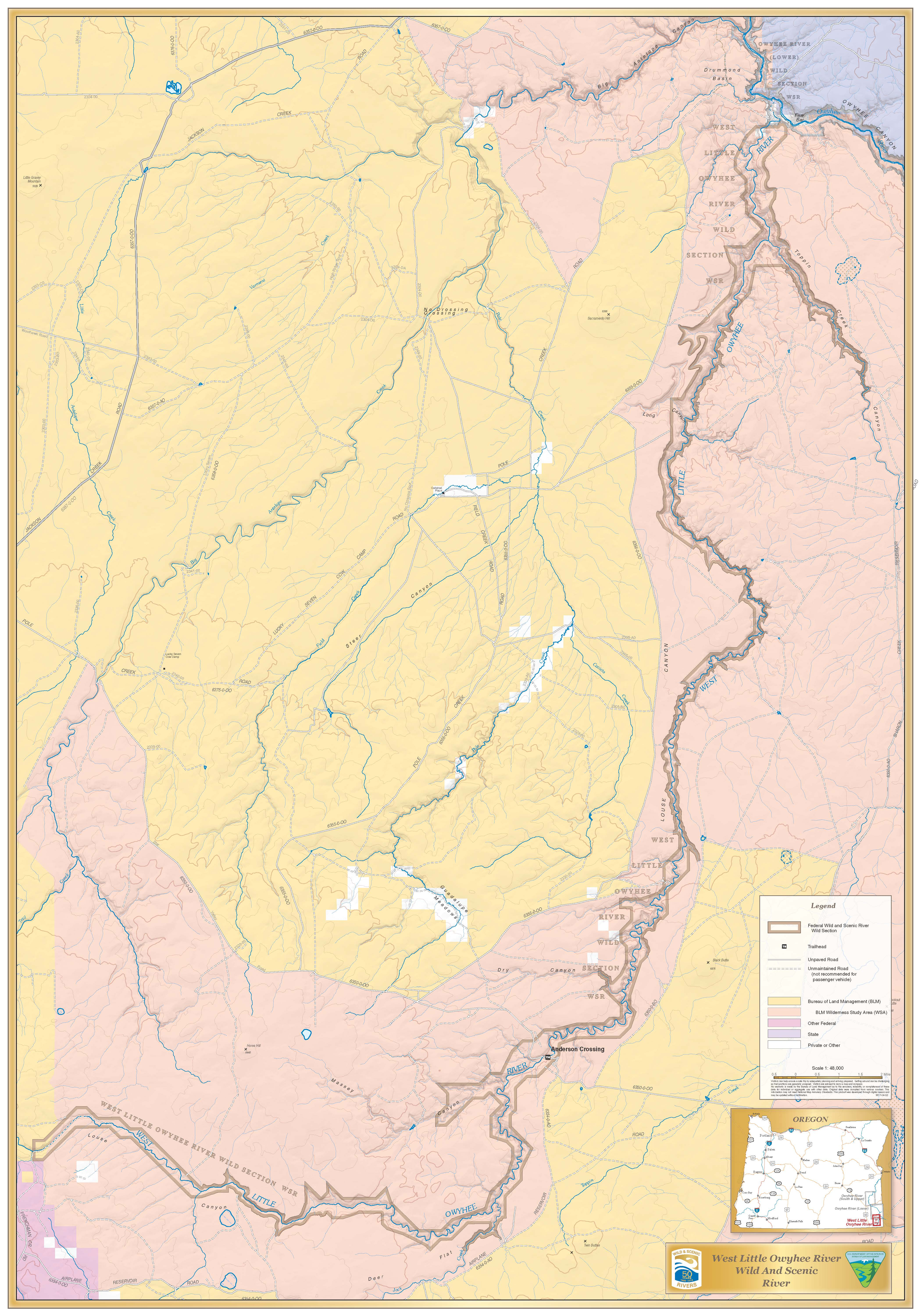 The West Little Owyhee River is a tributary of the mighty Owyhee River. Designated on in 1988, the source of the river is at an elevation of 6,508 feet near the Nevada-Oregon border by the community of McDermitt, Nevada. Approximately 57 miles in length, the river flows east by Deer Flat and into Louse Canyon. Near a prominent feature known as Twin Buttes, it turns sharply north as it cuts through the Owyhee Desert, making its way to the Owyhee River. The river is recognized for its remarkable scenery, wildlife, and opportunities for solitude and primitive recreation. The river is a stark contrast between the inner canyon and the typically flat sagebrush plateau through which it runs. The river itself offers many cool, clear secluded pools that are confined by sheer rock walls whose colorful, abstract beauty is the product of eons of erosion and weathering! This river segment offers a wide variety of recreational opportunities. Off-trail backpacking and day hikes with the challenging opportunity to travel by swimming and hiking all await you. Excellent wildlife viewing and hunting are available due to the richness of the area's fauna. Dispersed camping is allowed, although the watershed has no developed parks or campsites. Much of this pristine canyon is used as nesting habitat by a wide variety of raptors, including several hawk species and golden eagles. Winter visitors include Canada geese, mallards, scaups, mergansers and other fine feathered friends in the duck family. California bighorn sheep are present, particularly in the vicinity of Toppin Creek Canyon. Pronghorn antelope, mule deer, and white-tailed jackrabbits top the notable list of local residents. For more information about this remote Oregon wonderland stop on by the BLM Office in Vale Oregon. Vale District Office 100 Oregon Street Vale, OR 97918 Phone: 541-473-3144 Fax: 541-473-6213